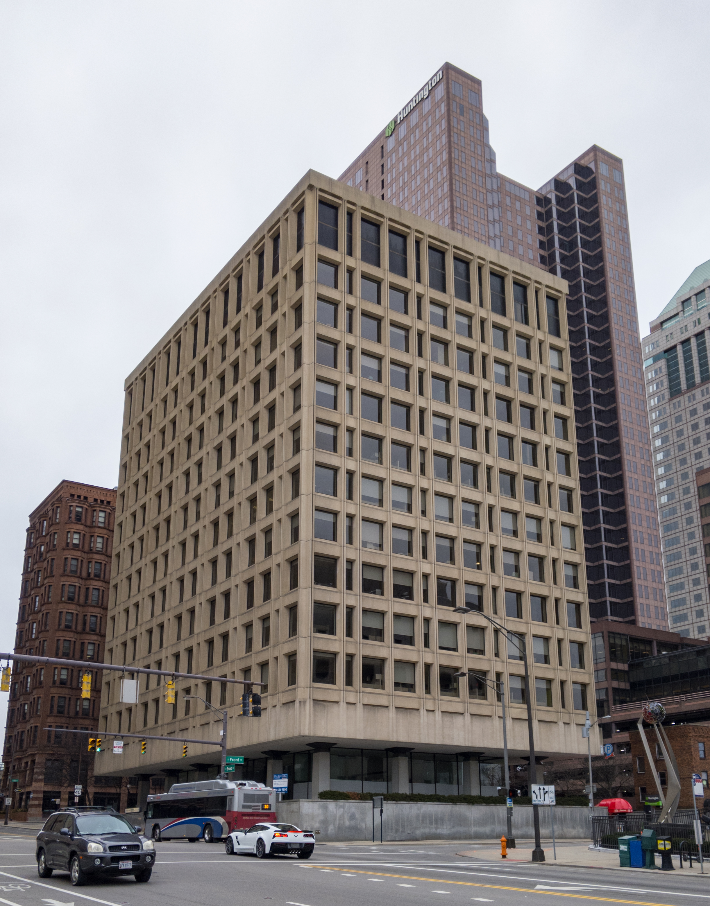 Huntington Plaza, taken in downtown Columbus, Ohio.